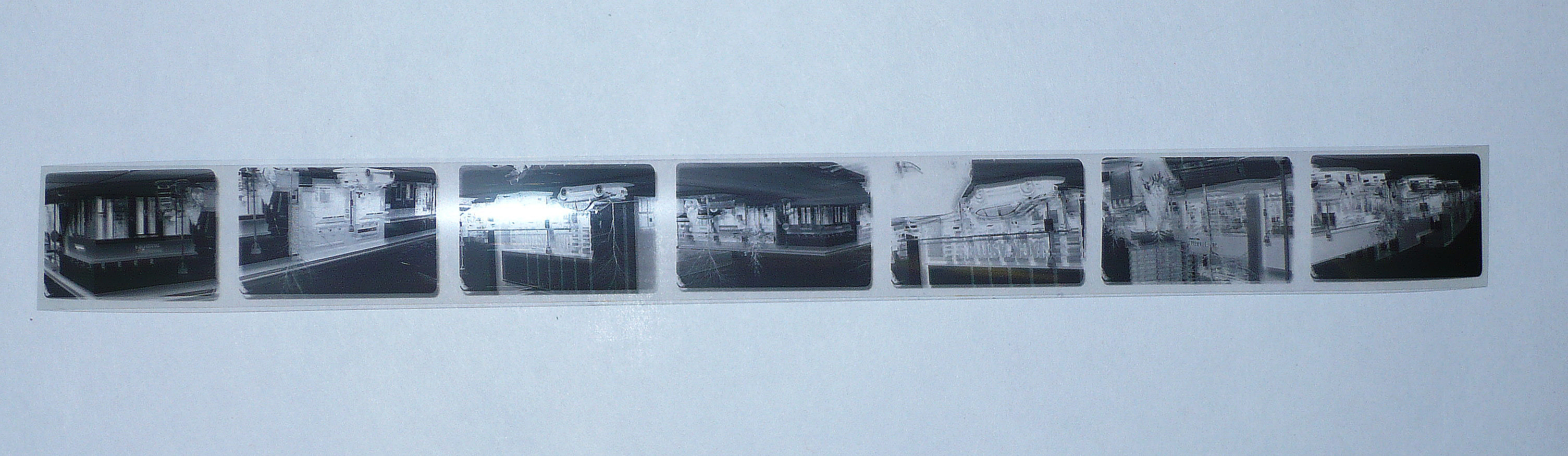 Naciss 16mm SLR negative